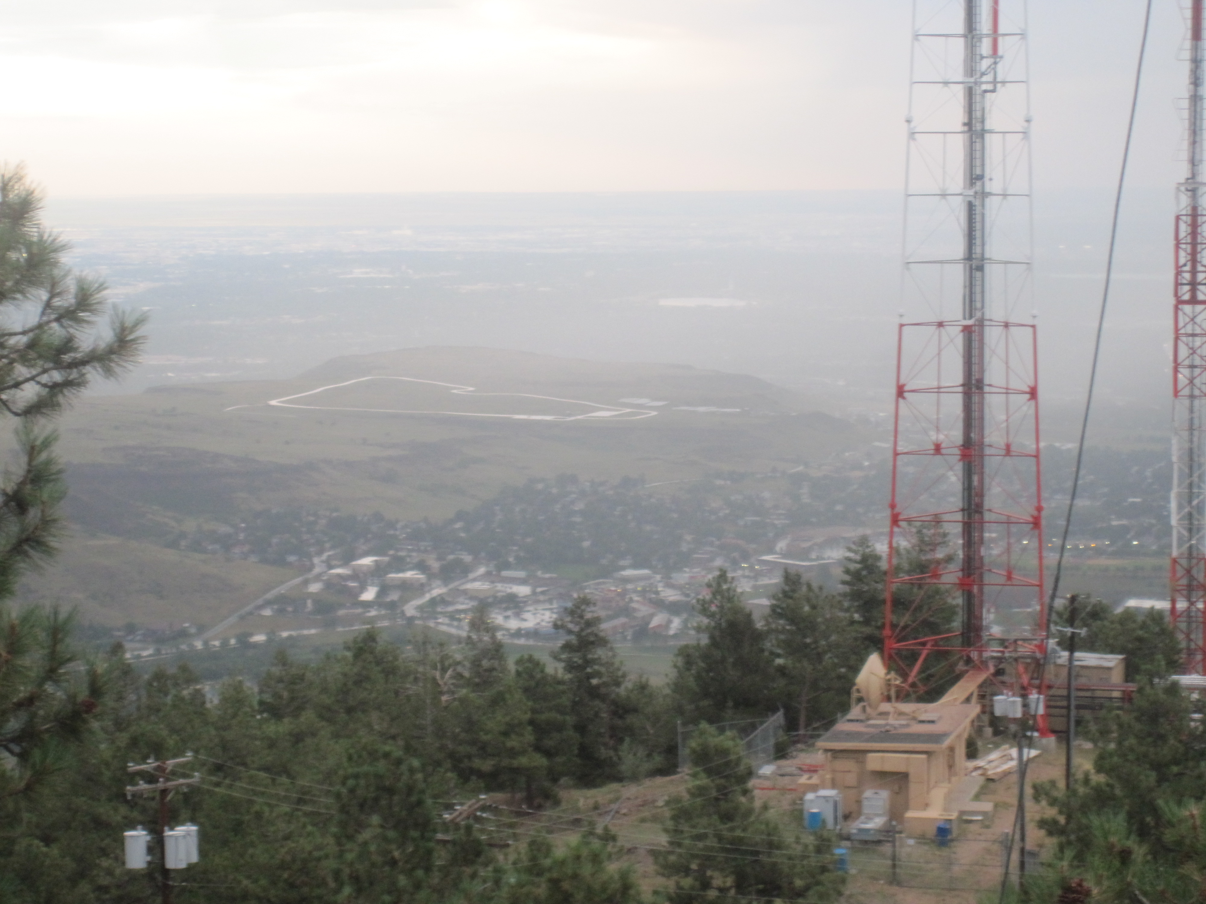 View of South Table Mountain from Lookout Mountain.